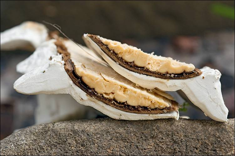 Skeletocutis nivea Location: Bovec basin, East Julian Alps, Posočje, Slovenia For more information about this, see the observation page at Mushroom Observer.